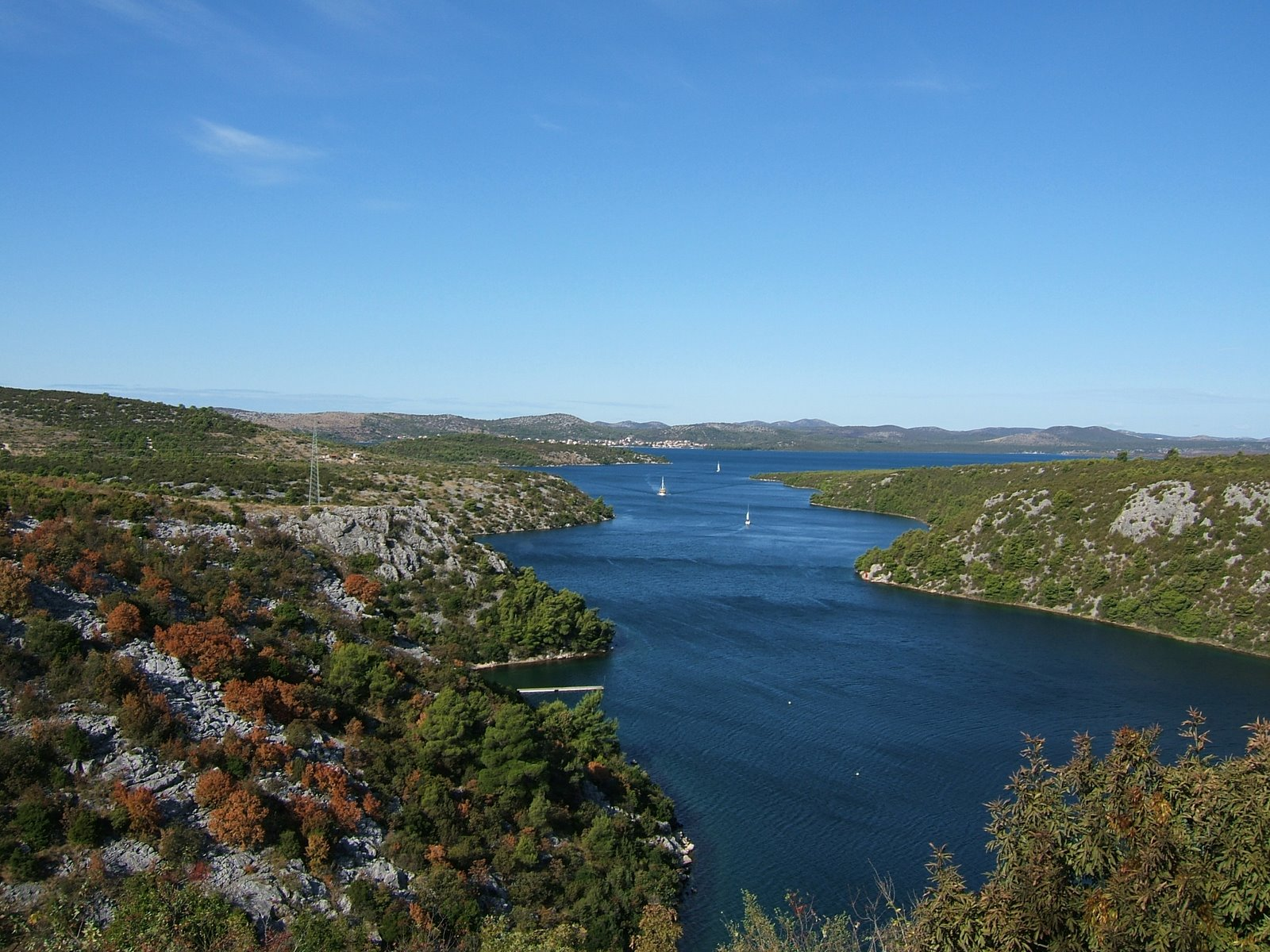 Estuary of the river Krka, Croatia.